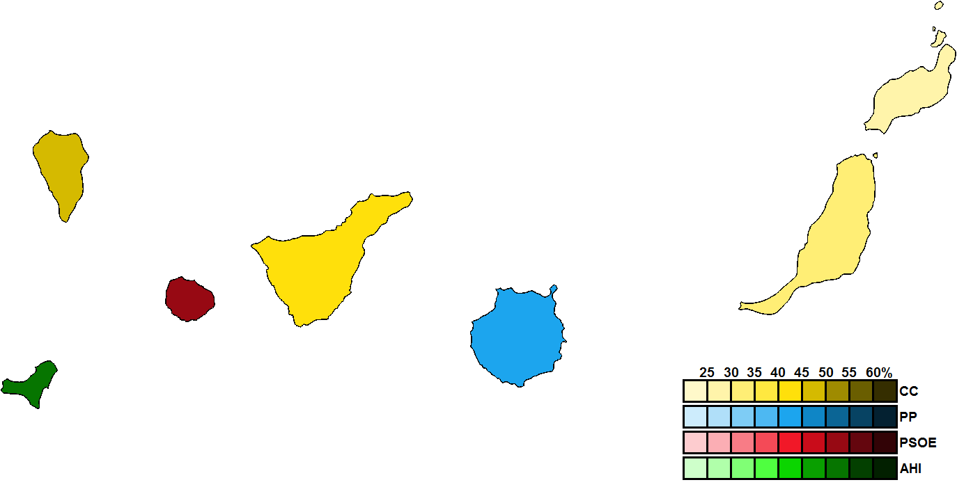 District results for the 1999 Canarian regional election.